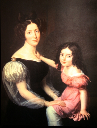 Oil painting portraying Champollions wife Rosine and daughter Zoraide